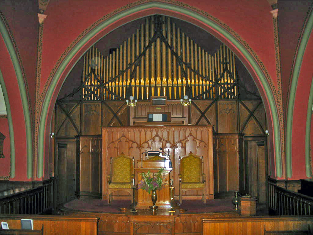 Johnson Pipe Organ and Pulpit of the Pullman Memorial Universalist Church